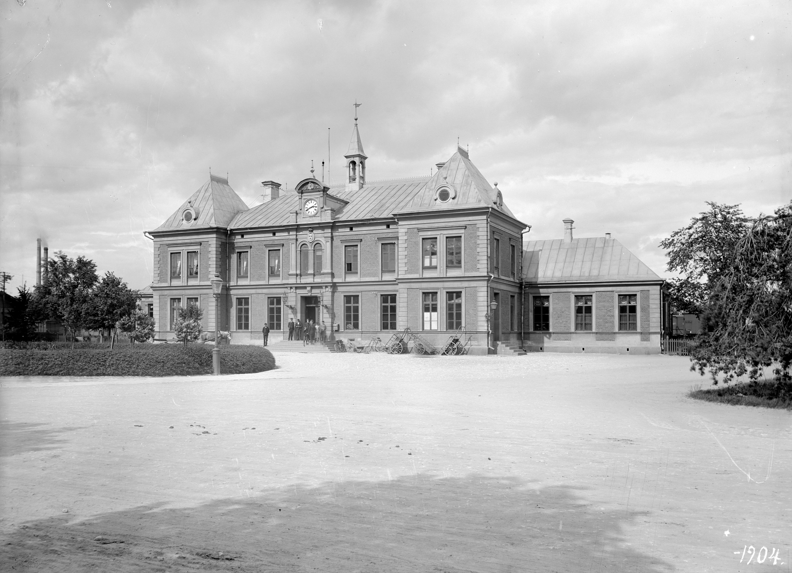 Linköpings centralstation 1904.